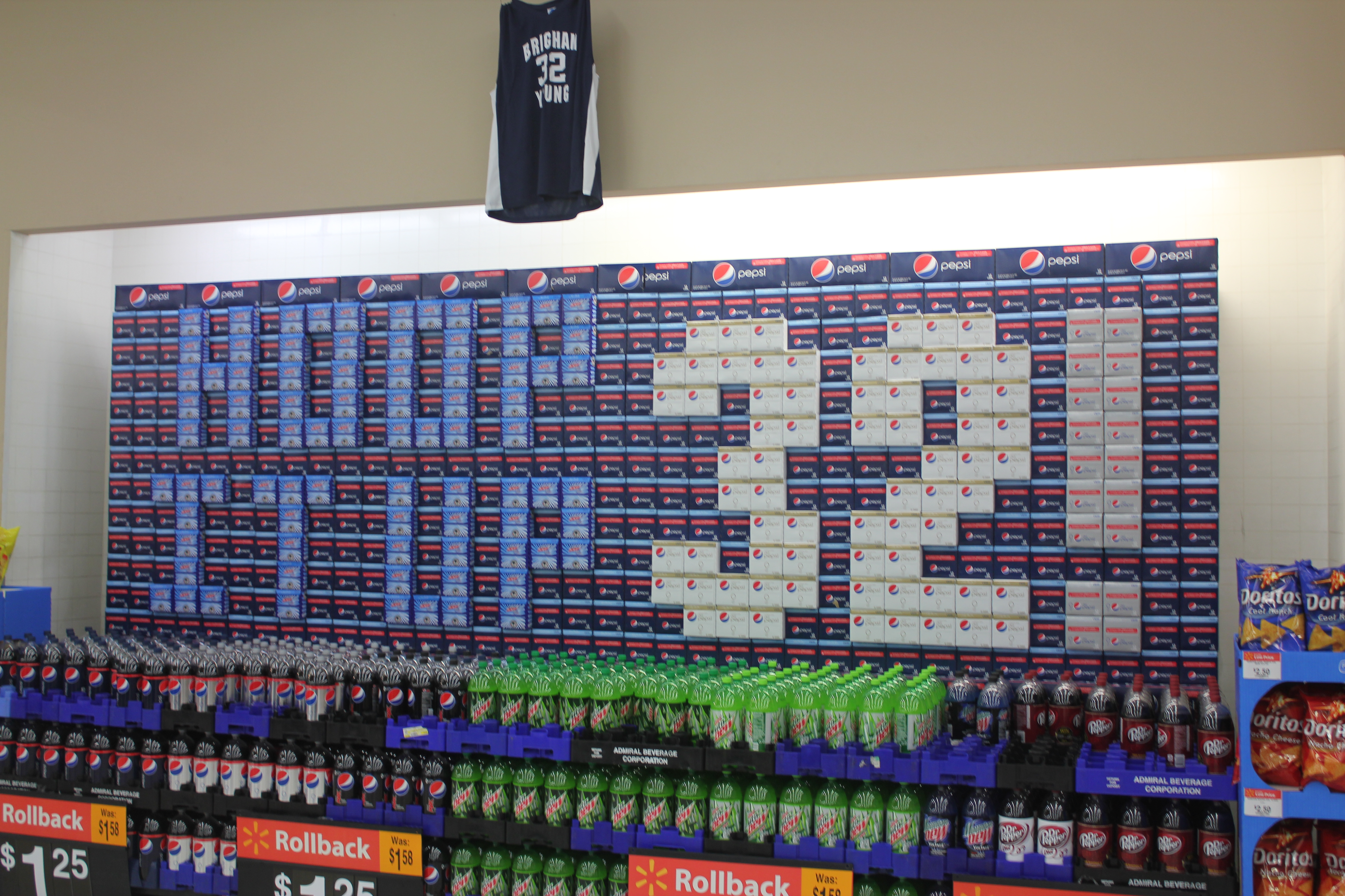 "Hoop it up, 32!": Orem Walmart Pepsi display supporting Jimmer Fredette (#32).